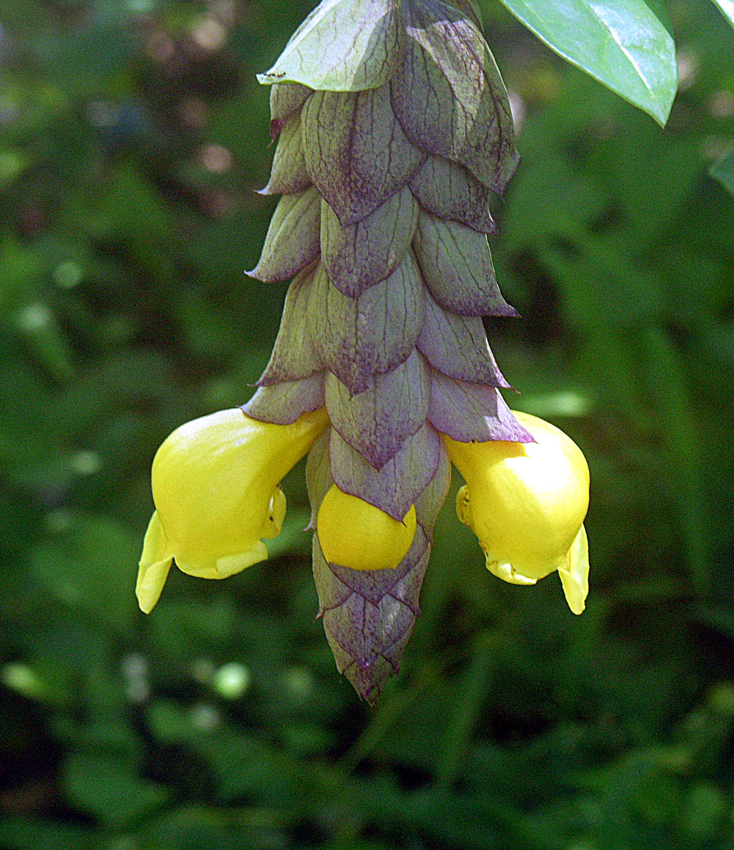 A flower widely planted from the Philippines, here in a garden in Dar es Salaam, Tanzania.